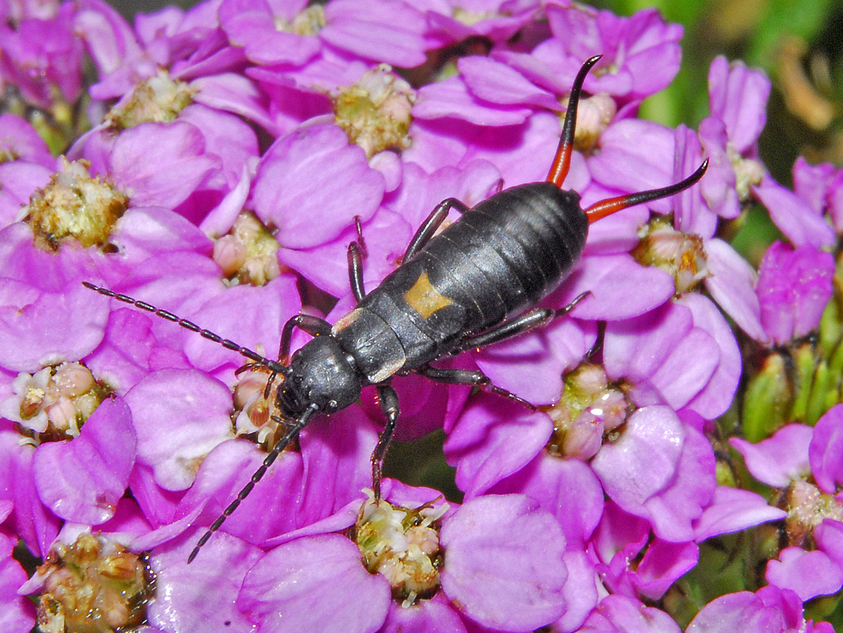 Anechura bipunctata. Immature. At the Giardino Botanico Alpino Chanousia.